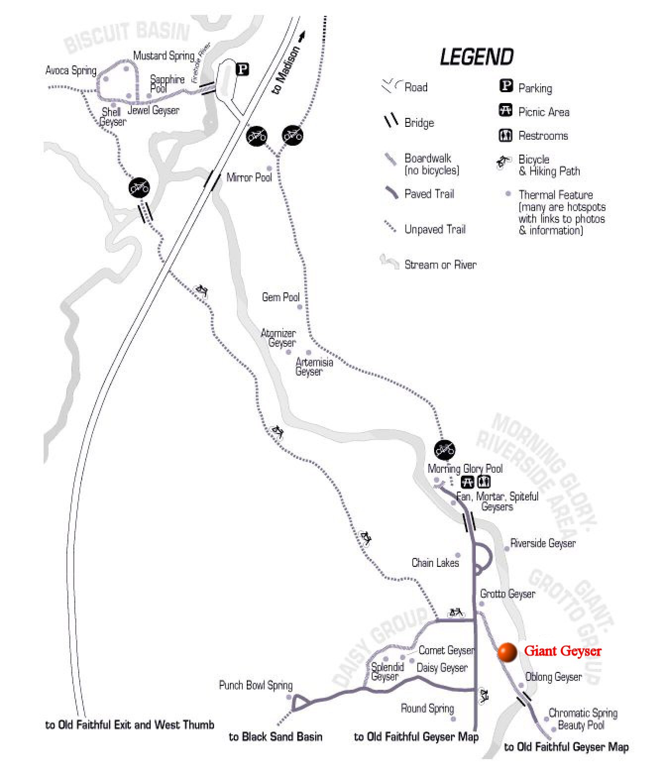 Northern section of Upper Geyser Basin, Yellowstone National Park, with Giant Geyser annotated